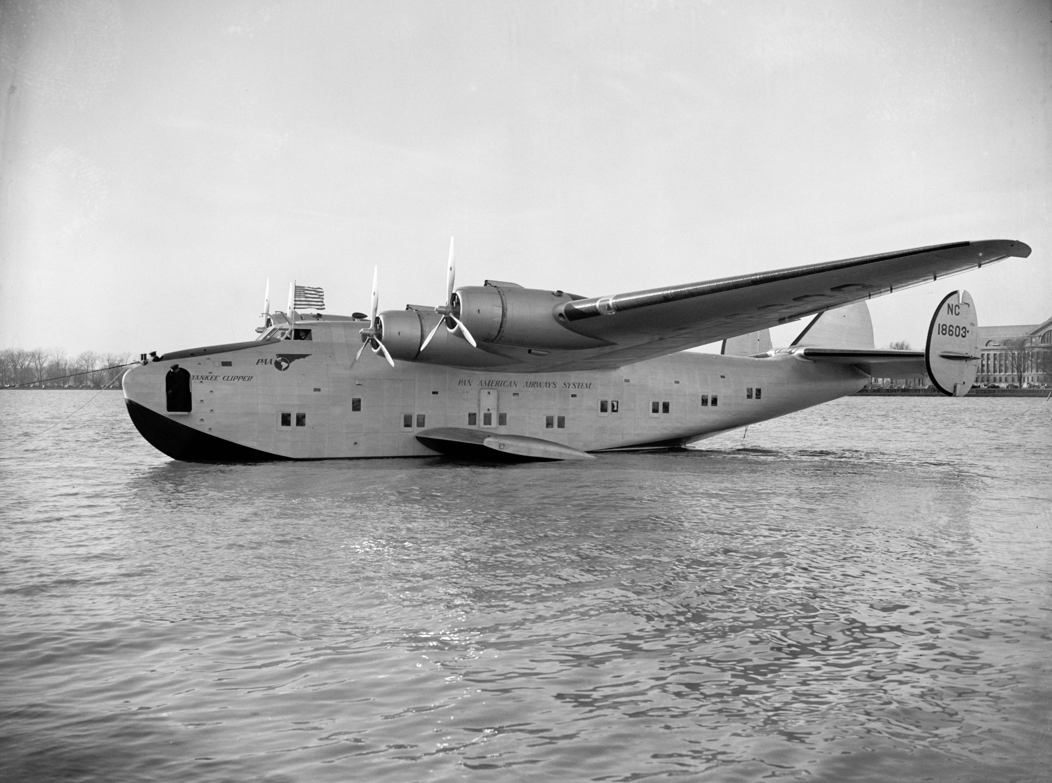 The Pan American World Airways Boeing 314 Yankee Clipper (serial NC18603), circa 1939. This aircraft started the Transatlantic mail service. It crashed in Lisbon, Portugal, on 22 February 1943 and was written off.